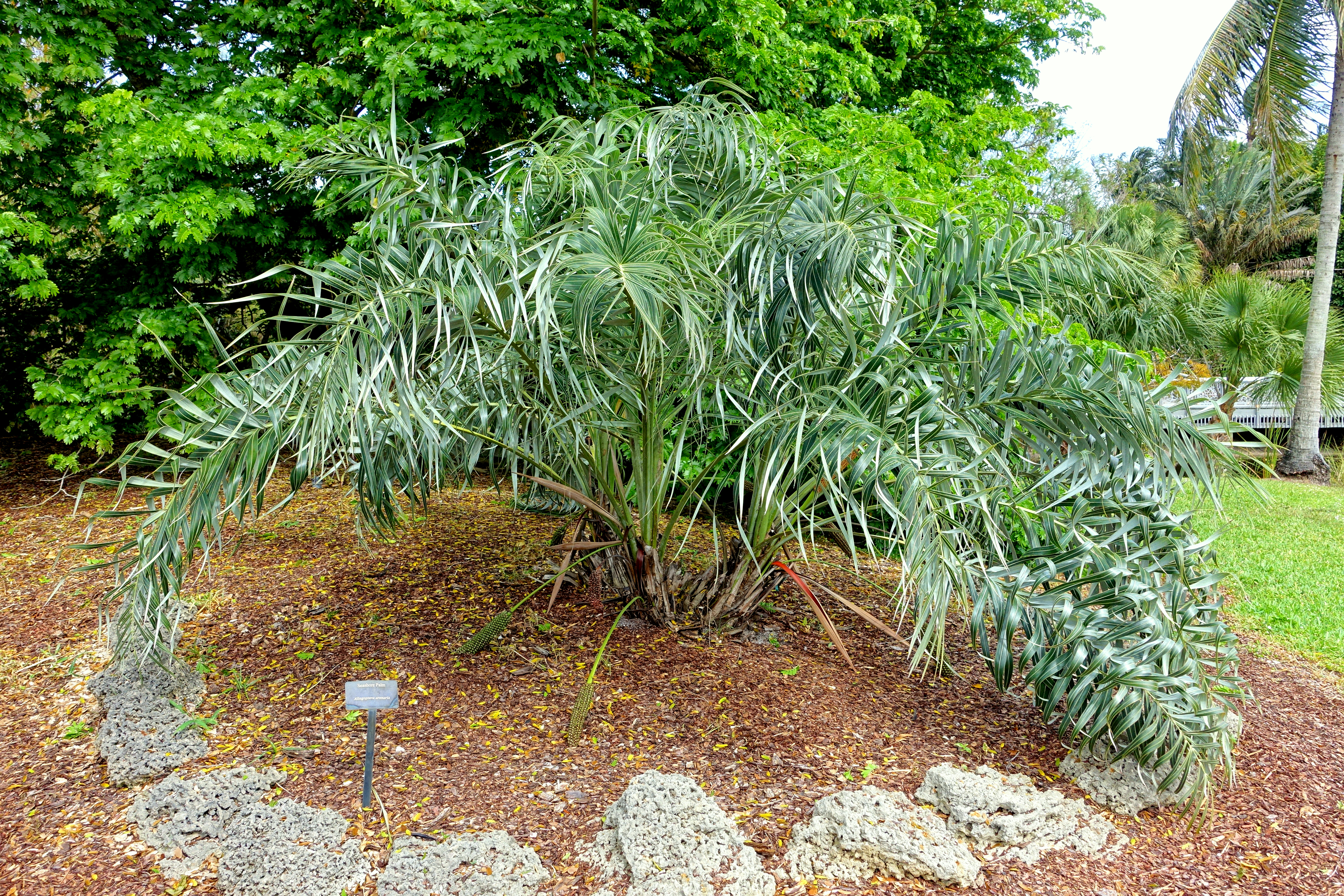 Botanical specimen in Mounts Botanical Garden - Palm Beach County, Florida, USA.